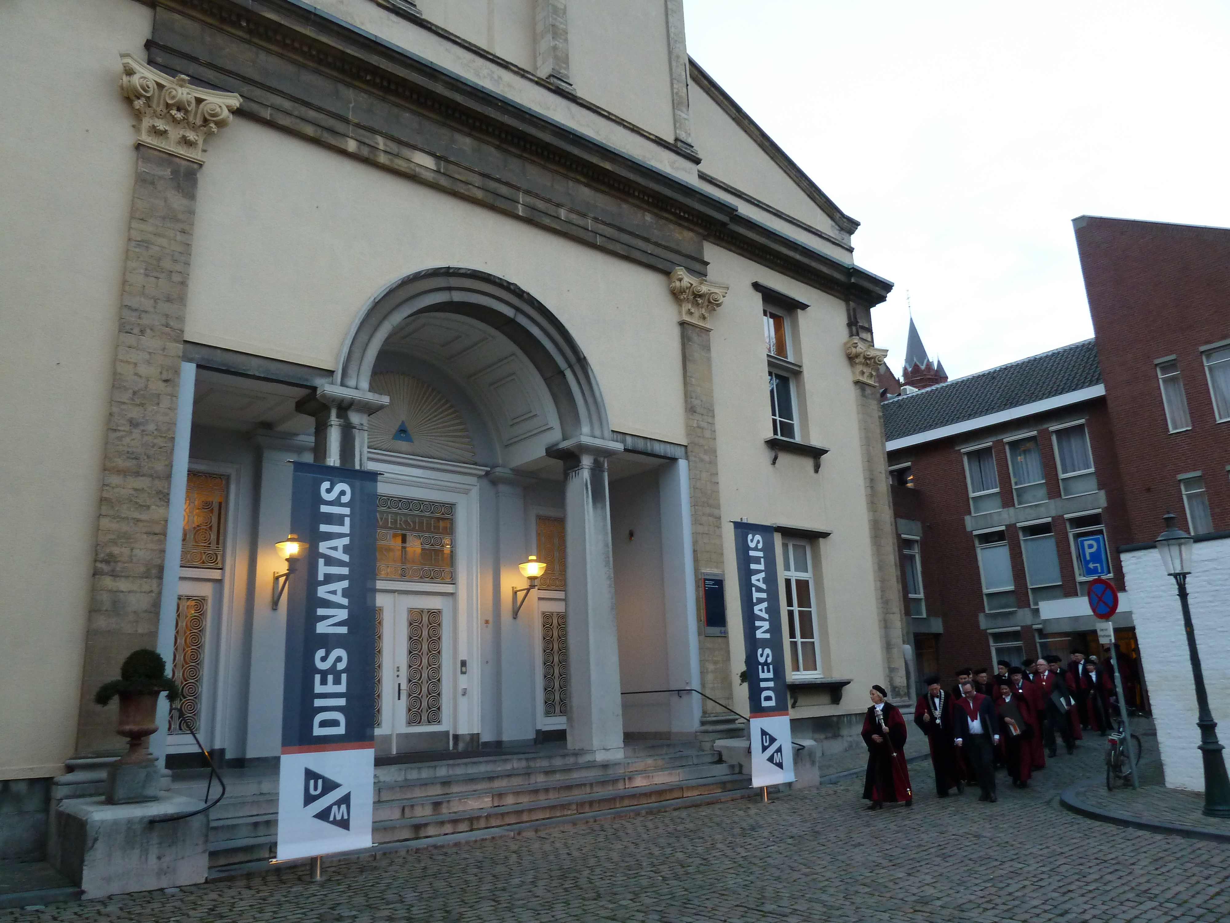 39th Dies Natalis of Maastricht University